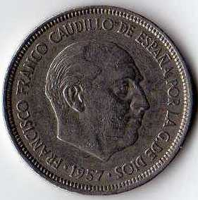 5 Pesetas - reverse, you can read: Francisco Franco Caudillo de España por la gracia de Dios 1957